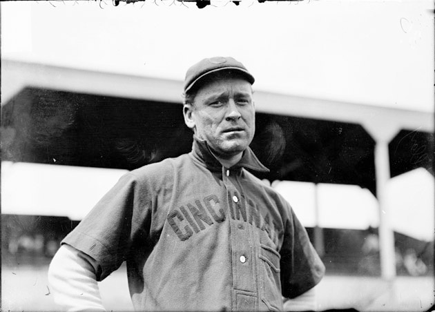 [Baseball player, Joe Kelley, Cincinnati Reds, standing at West Side Grounds]. Chicago Daily News, Inc., photographer. CREATED/PUBLISHED 1903. SUMMARY Half-length portrait of Baseball player, Joe (Joseph James) Kelley, captain and utility player for the Cincinnati Reds, National League, standing at West Side Grounds, which was located between West Polk Street, South Wolcott Avenue (formerly Lincoln Street), West Taylor Street, and South Wood Street, in the Near West Side community area of Chicago, Illinois. The grandstand visible in the background. NOTES This photonegative taken by a Chicago Daily News photographer may have been published in the newspaper. Cite as: SDN-001730, Chicago Daily News negatives collection, Chicago History Museum. SUBJECTS Kelley, Joseph James. Cincinnati Reds (Baseball team) West Side Grounds (Chicago, Ill.) National League of Professional Baseball Clubs Baseball players--Illinois--Chicago--1900-1909. Near West Side (Chicago, Ill.)--1900-1909. Chicago (Ill.)--1900-1909. Portraits. Dry plate negatives. Gelatin dry plate negatives. United States--Illinois--Cook County--Chicago. MEDIUM 1 negative : b&w, glass ; 5 x 7 in. REPRODUCTION NUMBER SDN-001730 REPOSITORY Chicago History Museum, 1601 North Clark Street, Chicago, IL 60614-6038. DIGITAL ID (original negative) ichicdn s001730